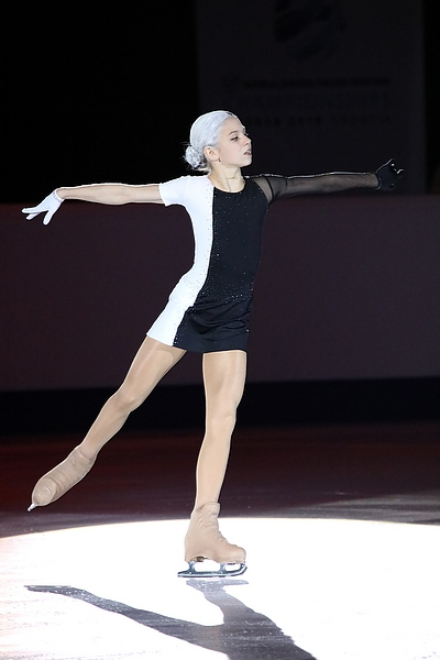 Alexandra Trusova at the 2019 World Junior Championships - Gala